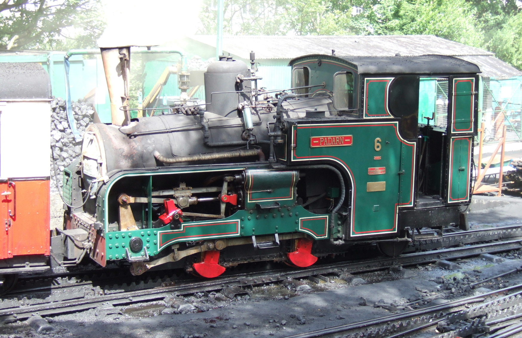 Snowdon Mountain Railway. No.6 'Padarn' SLM 0-4-2T 2838 of 1922, at Llanberis Shed, waiting for its first duty of the day. Camera - Fuji FinePix F10 Modified - Trimmed and file size reduced using Finepix Software